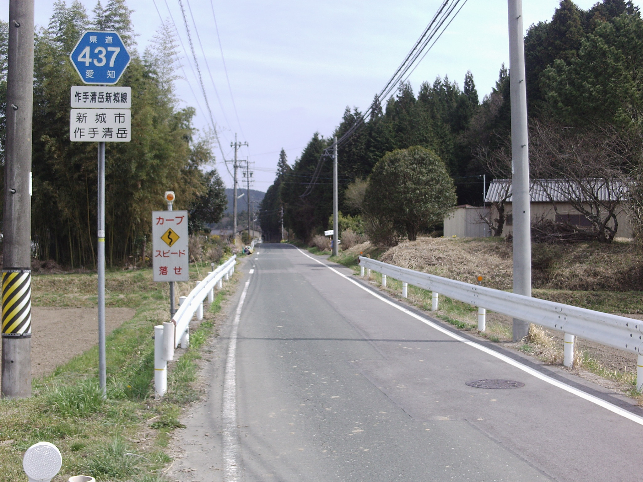 Aichi prefectural road No.437 in Tsukude Kiyooka, Shinshiro, Aichi.